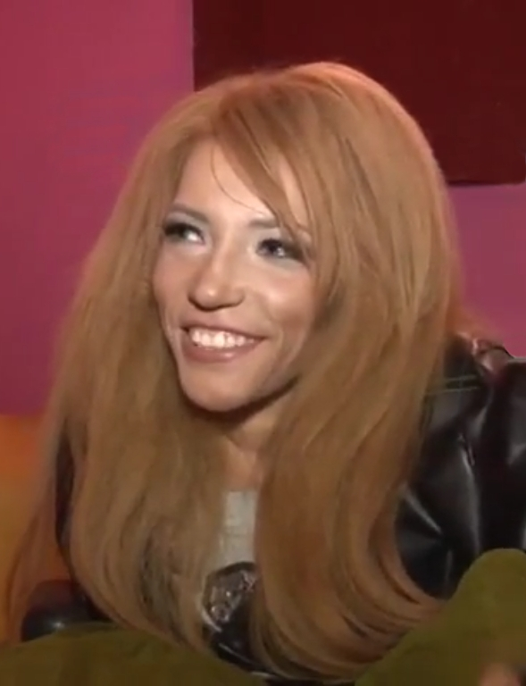 Yuliya Olegovna Samoylova, a Russian singer.